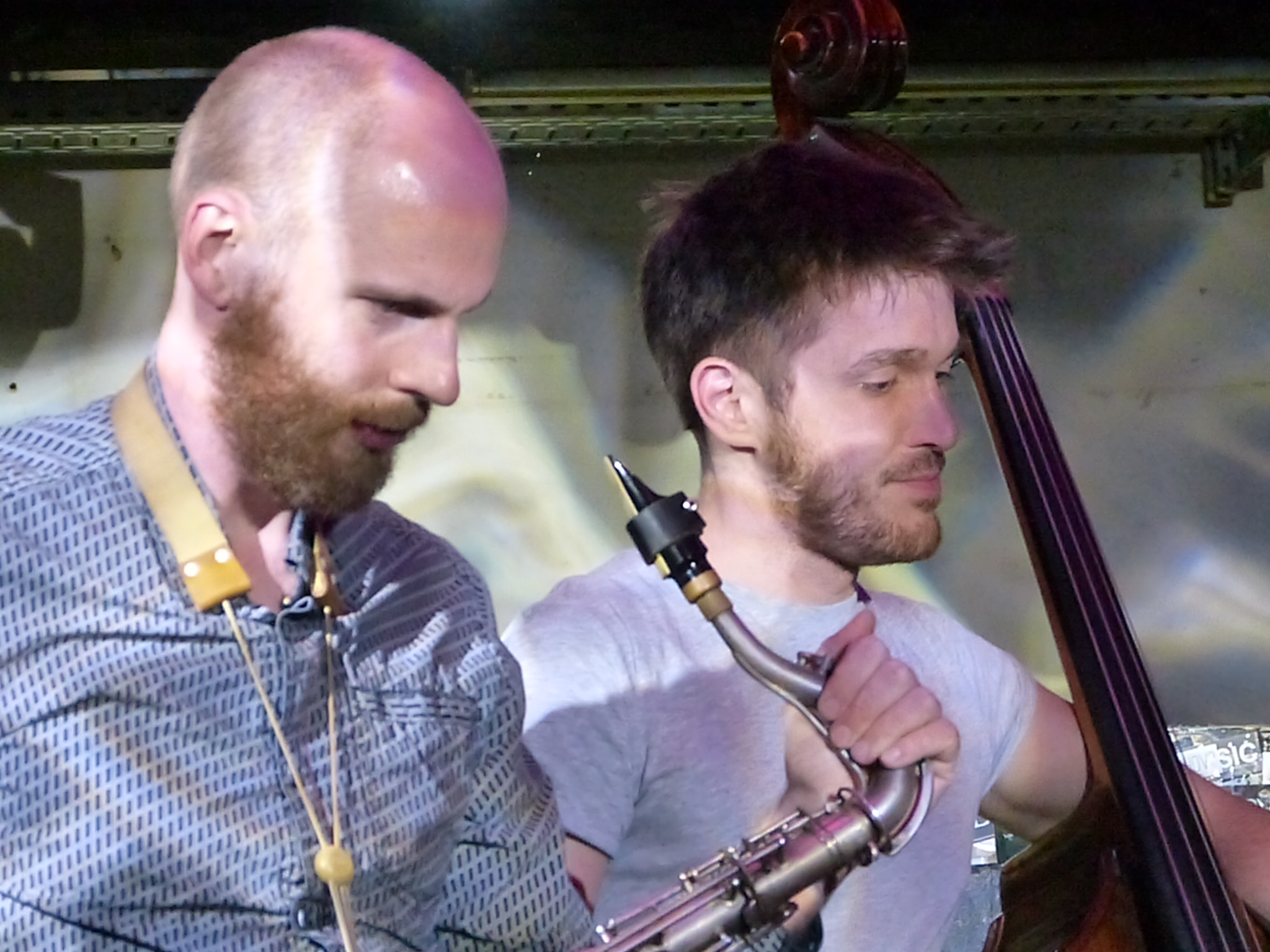 Sebastian Büscher (ts) and Florian Herzog (b) in concert of Pommes People with Janning Trumann (tb), and Fabian Arends (dr) at ARTheater, Cologne, Germany, August 9th, 2016